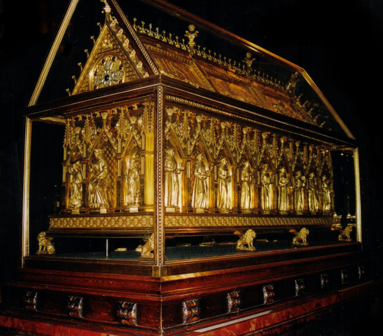 Gold reliquary chest with Madonna enthroned and figures of twenty martyred Dutch Catholic priests late Medieval, removed from Netherlands to Belgium.